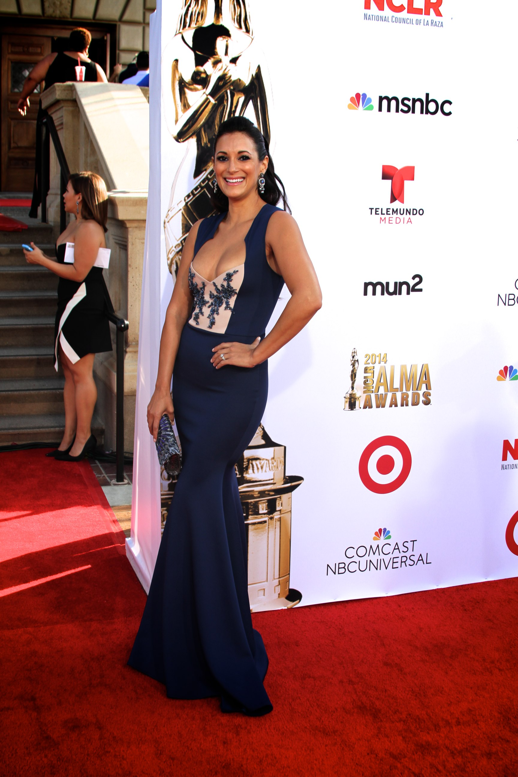 Angelique Cabral at the 2014 Alma Awards